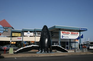 Hervey Bay, the whale watching capital of Australia